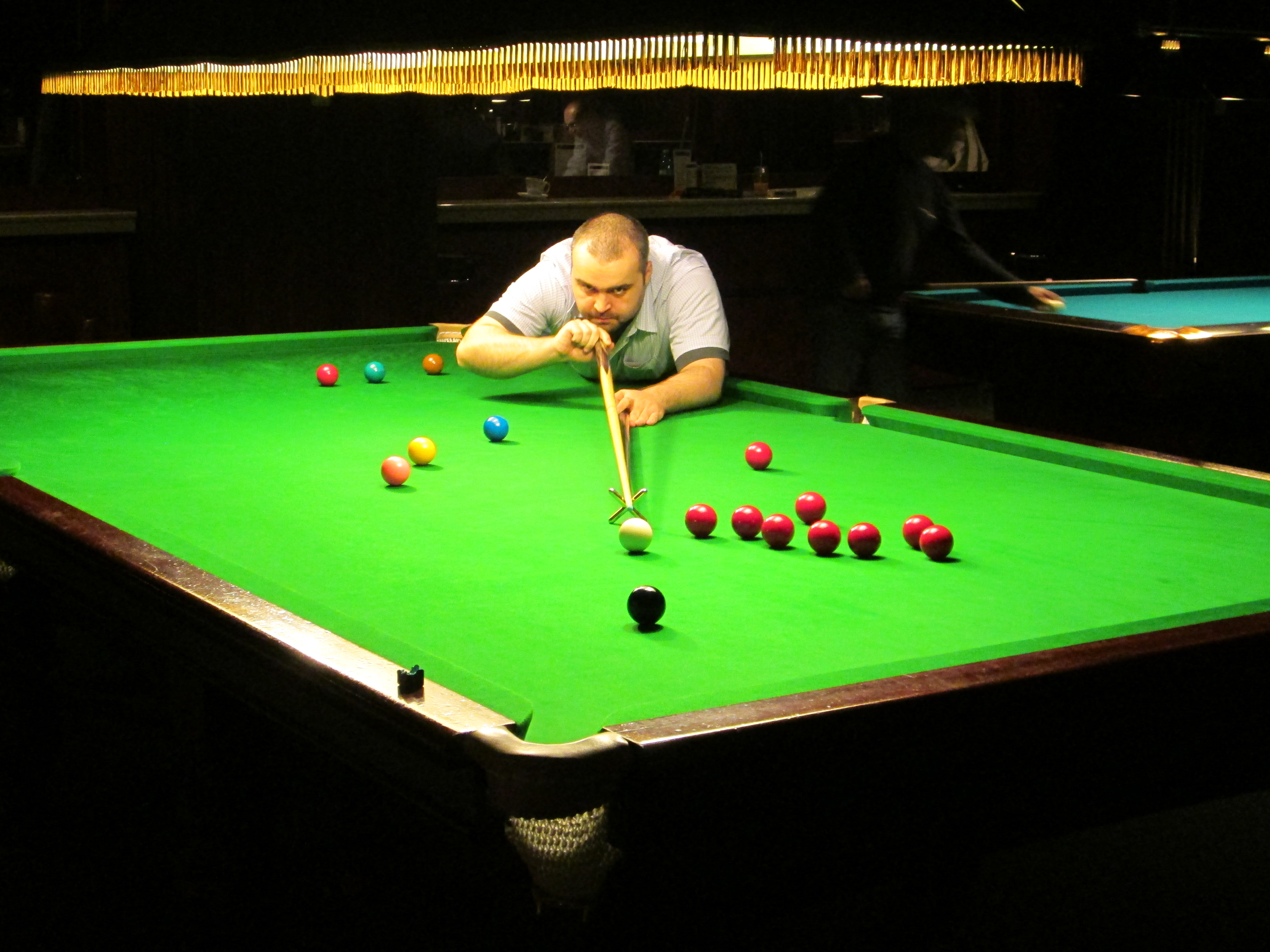 Radu Vilau